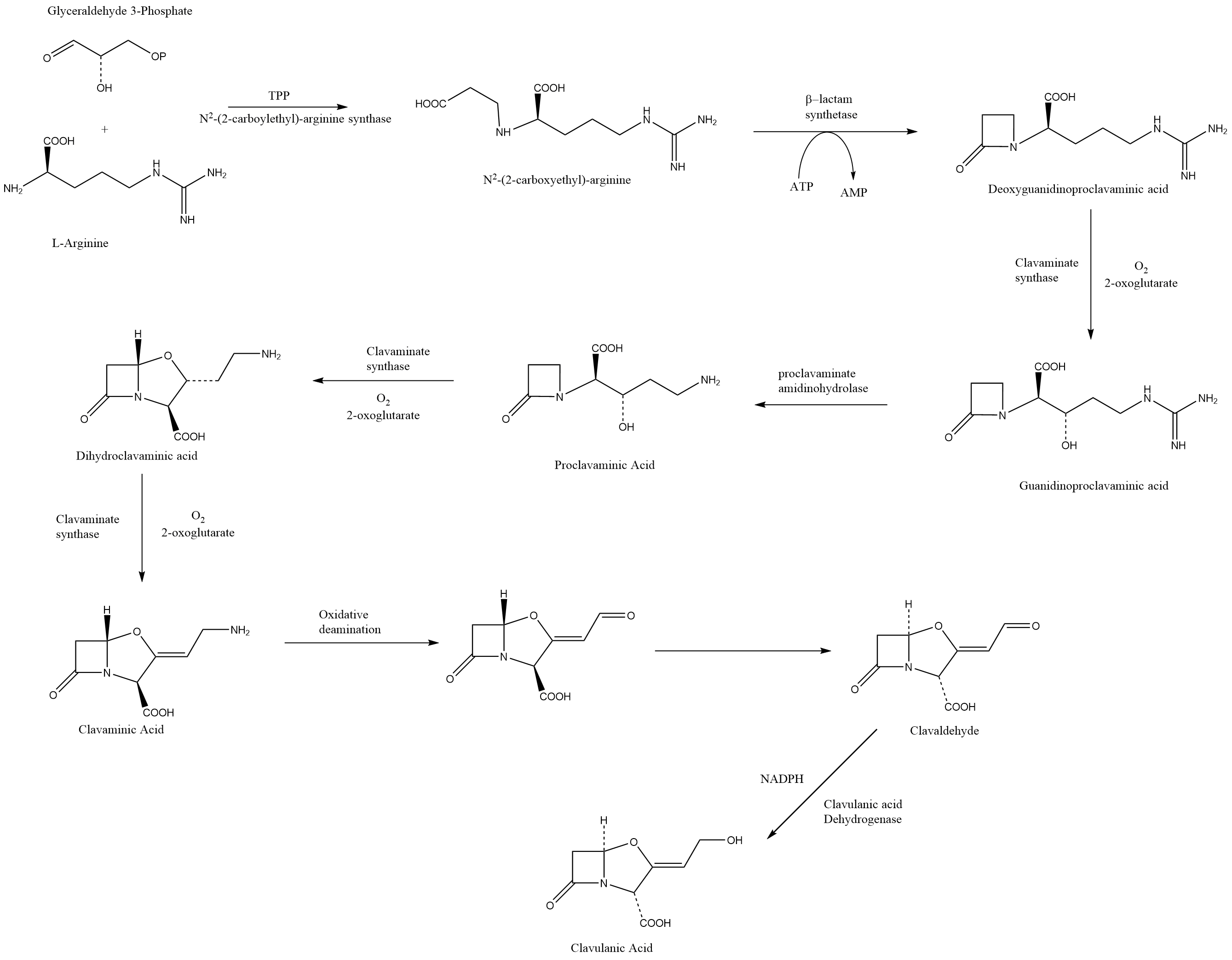 The intermediates of the biosynthesis of Clavualnic Acid